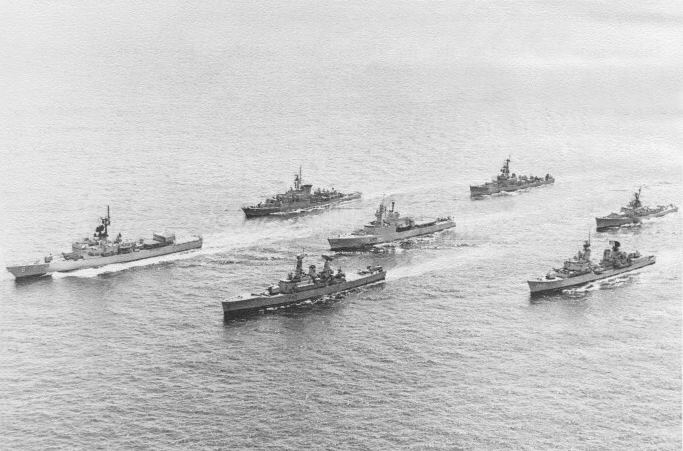 NATO Standing Naval Force Atlantic ships underway, in 1974 (l-r): USS Julius A. Furer (DEG-6), U.S. Navy; HMS Sirius (F40), Royal Navy; Augsburg (F222), West Germany; HMCS Annapolis (DDH 265), Royal Canadian Navy; NRP Almirante Pereira da Silva (F472), Portugal; Hr.Ms. Rotterdam (D818), the Netherlands; KNM Narvik (F304), Norway.